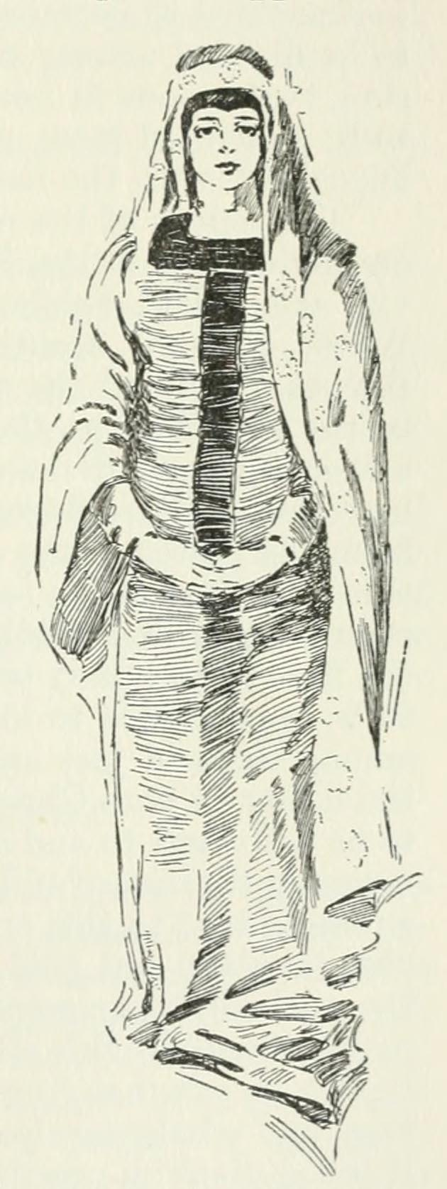 A Frankish Woman of Quality